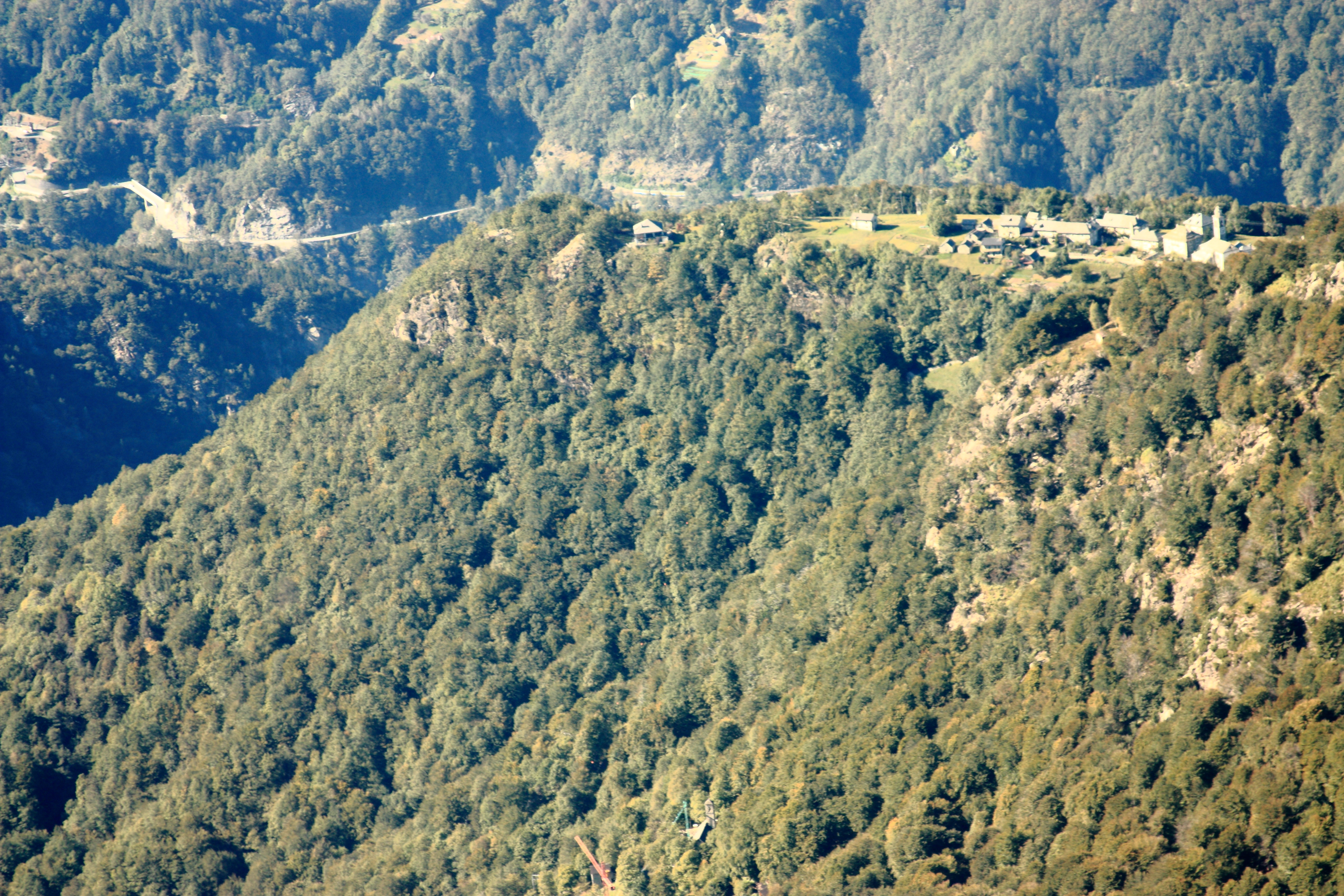 Rasa hamlet in Palagnedra village, which is now part of Centovalli in Ticino, Switzerland.